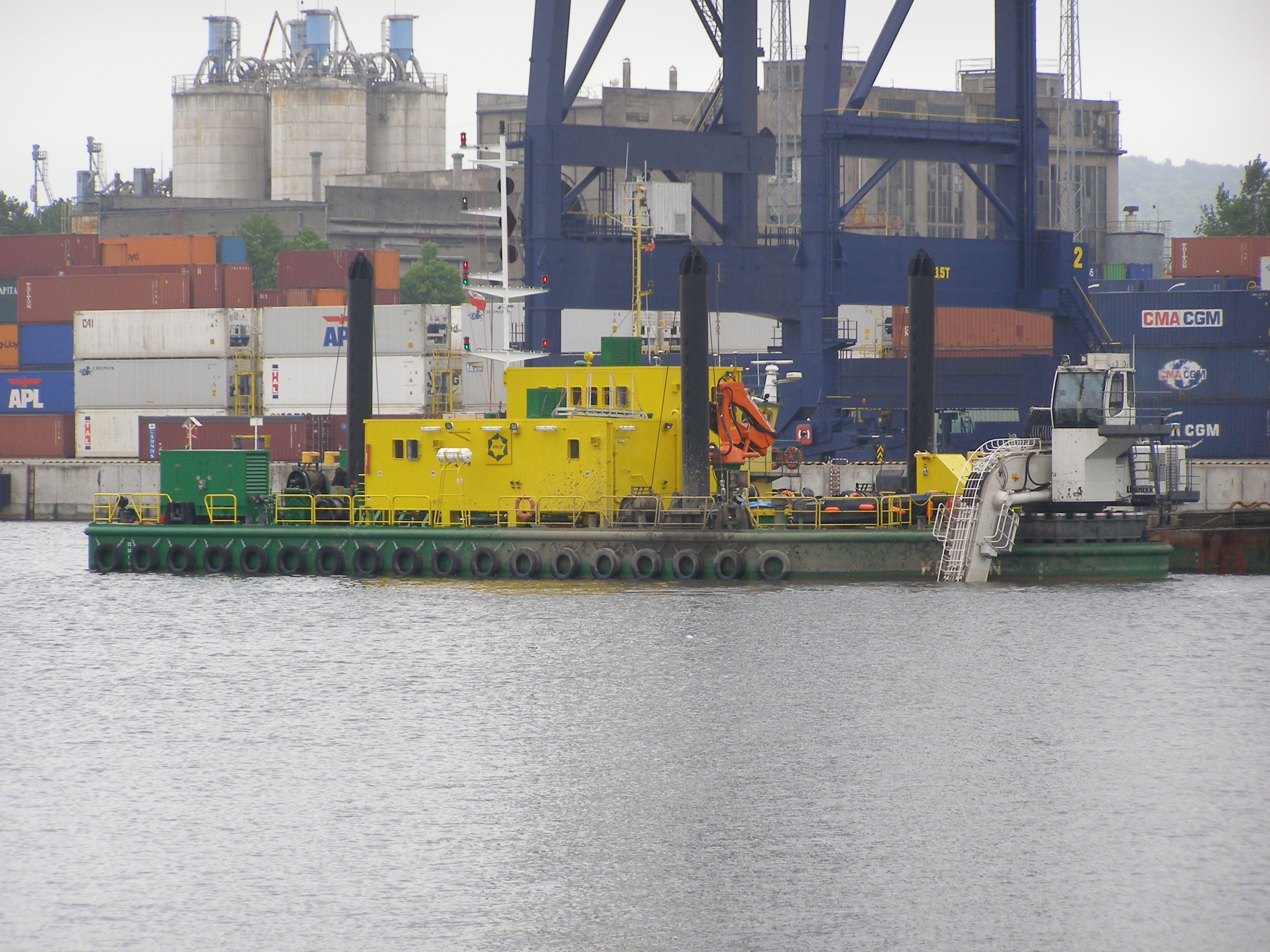 Gdynia - Kraken dredger (built in 2013 at Gdańsk Shiprepair Yard), view from BCT